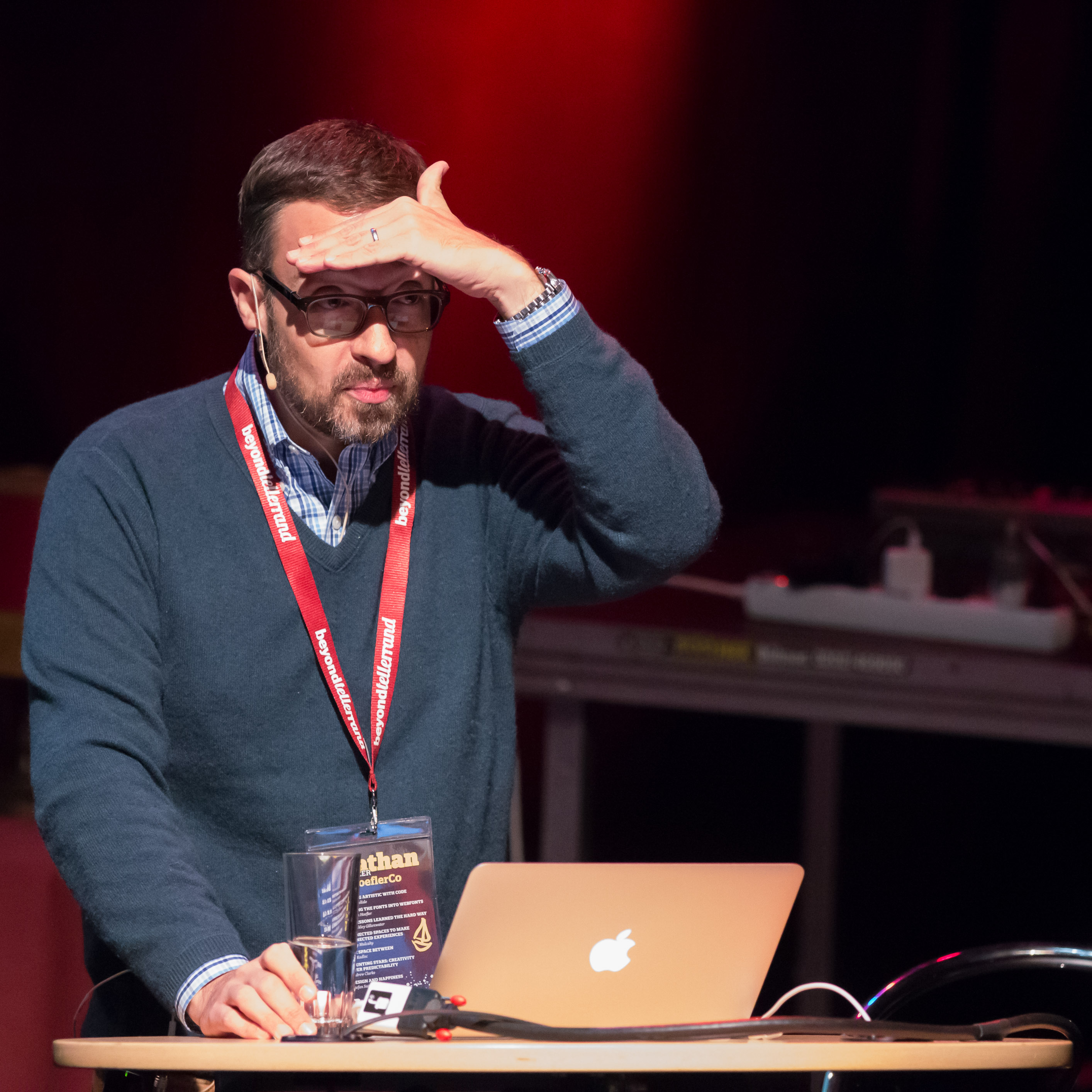 Font designer and businessman Jonathan Hoefler